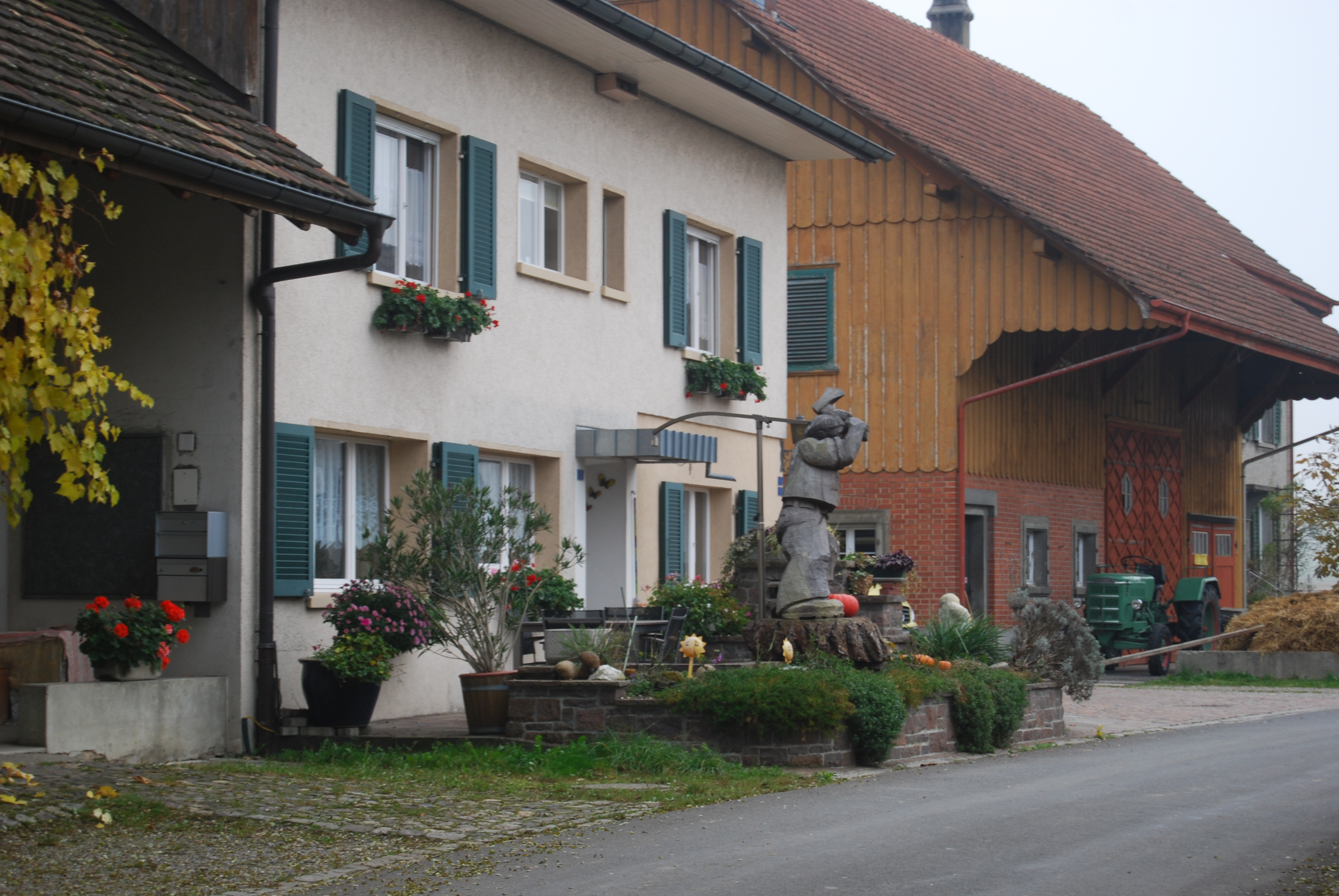 Volken, canton of Zürich, SwitzerlandEsperanto: Volken, Kantono Zuriko, Svislando